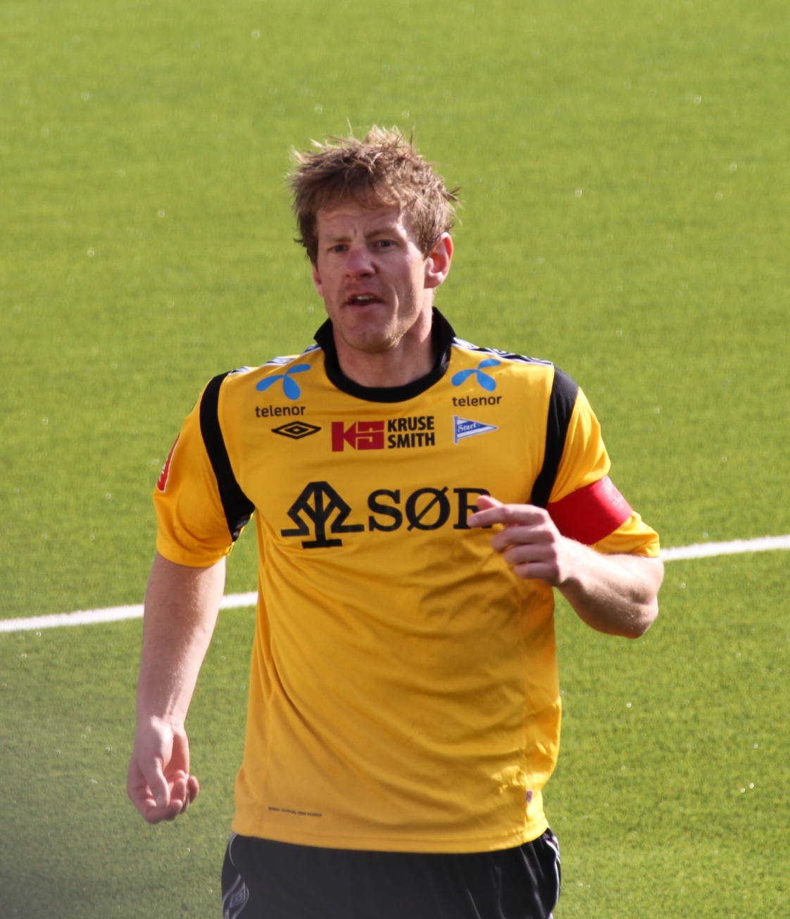 IK Start (Norway) player in match against Mjøndalen. May 20, 2012.